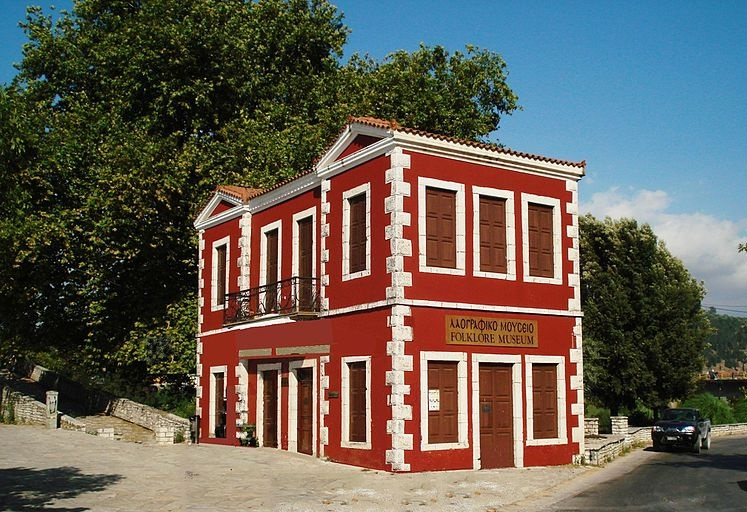 Folklore Museum of Arta